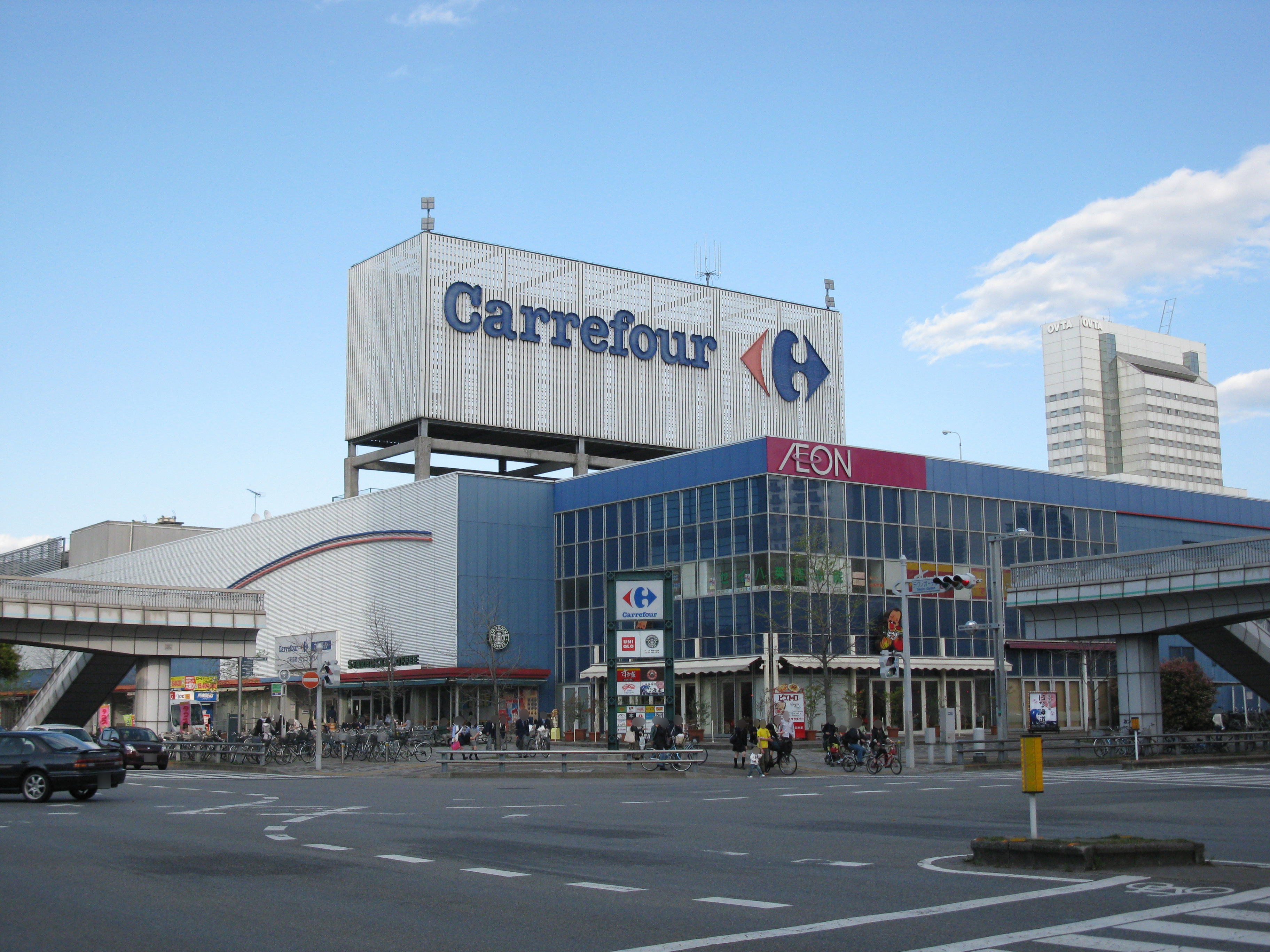 Aeon Marché Carrefour Makuhari